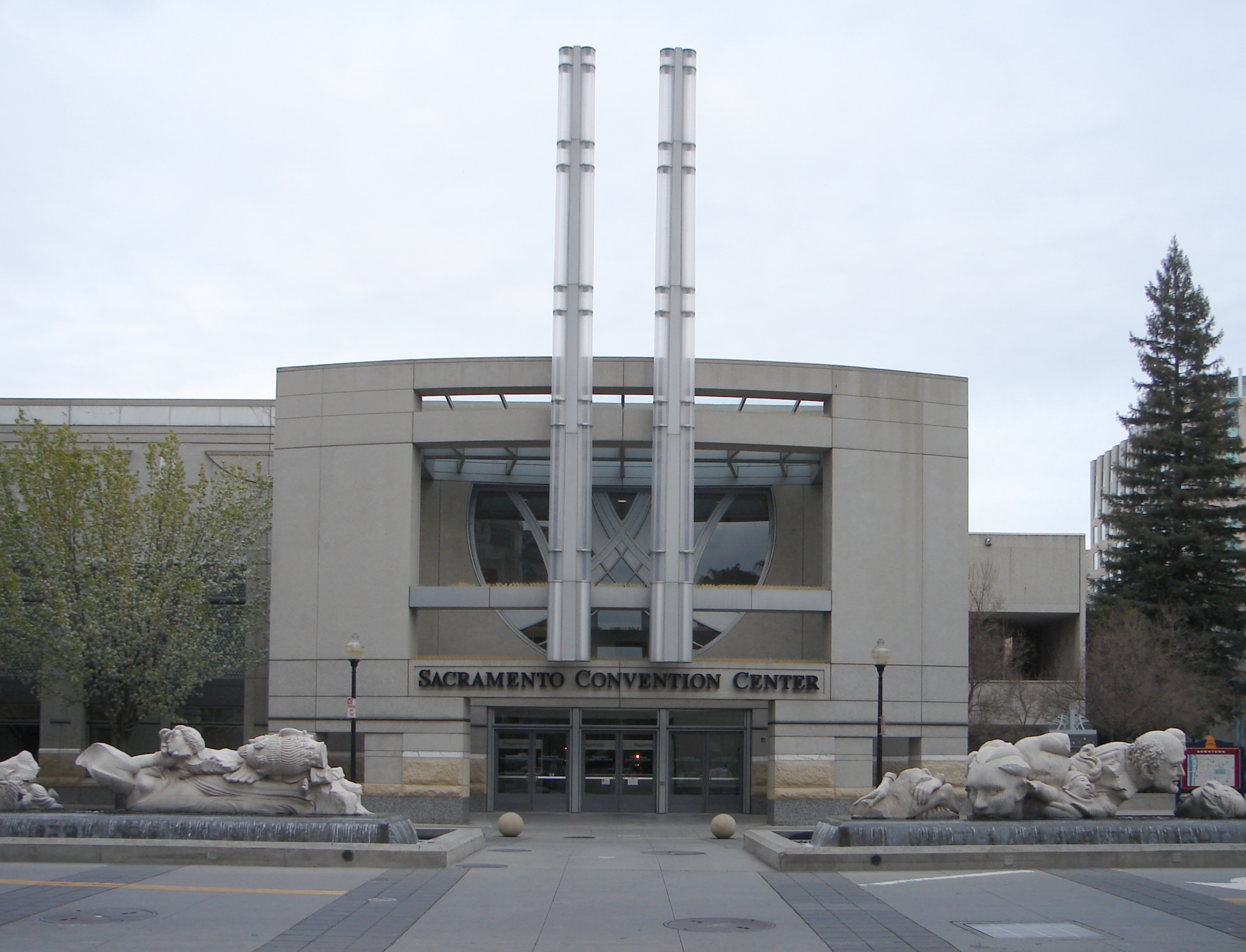 Front view of the Sacramento Convention Center.